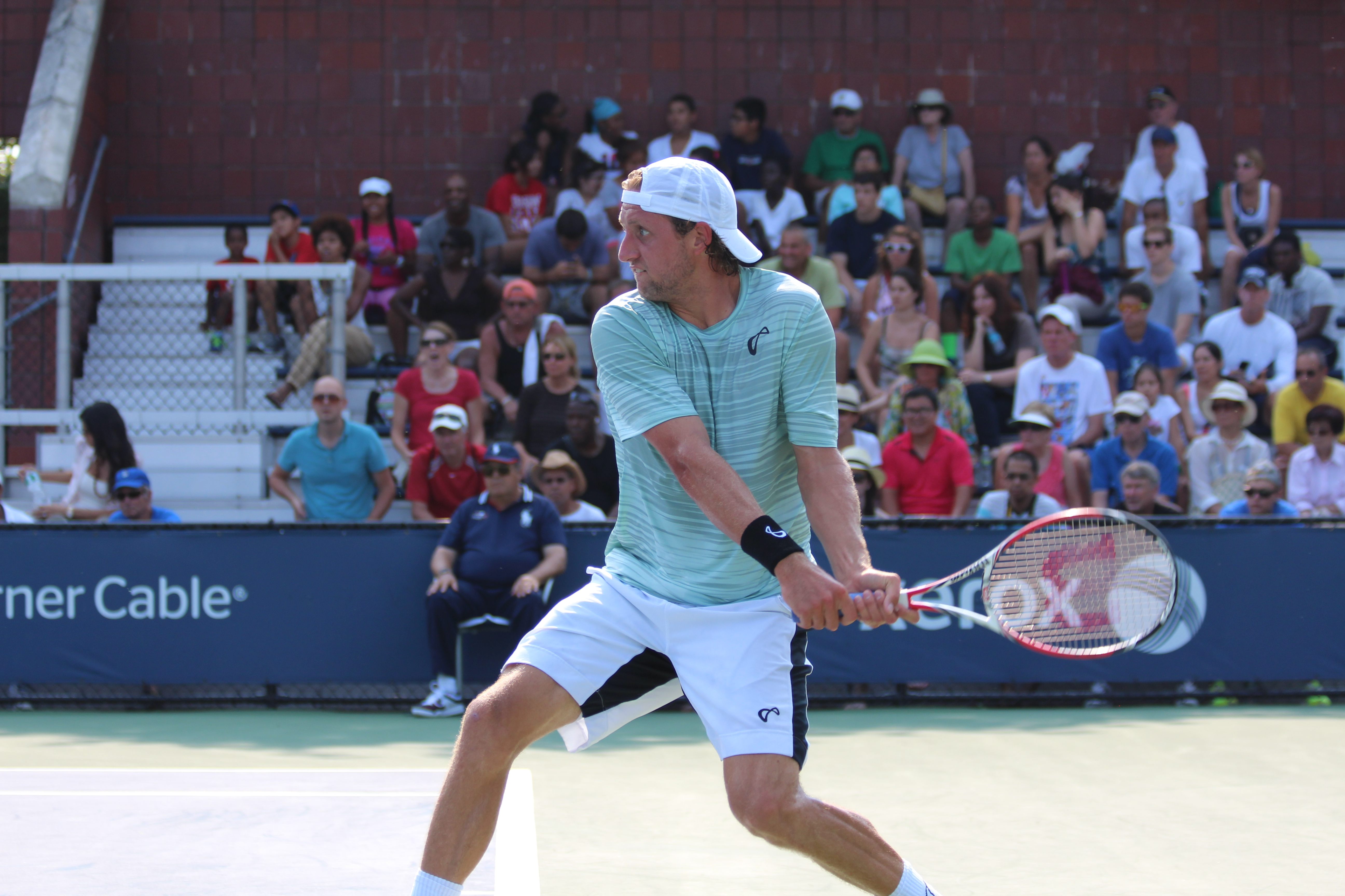 This is a picture of Tennys from his first round qualifying match at the 2013 US Open.